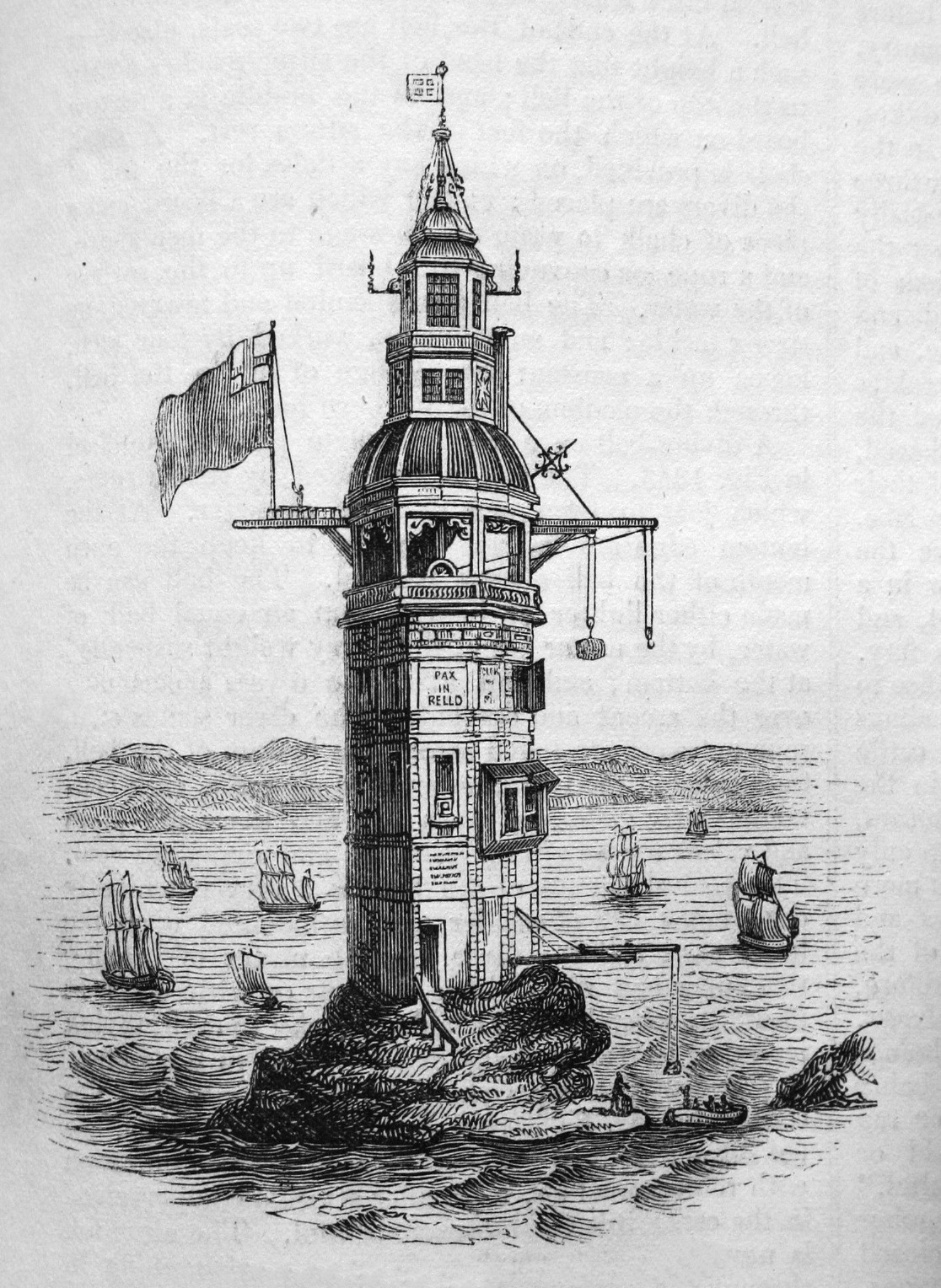 Winstanley's Lighthouse at the Eddystone - engraving